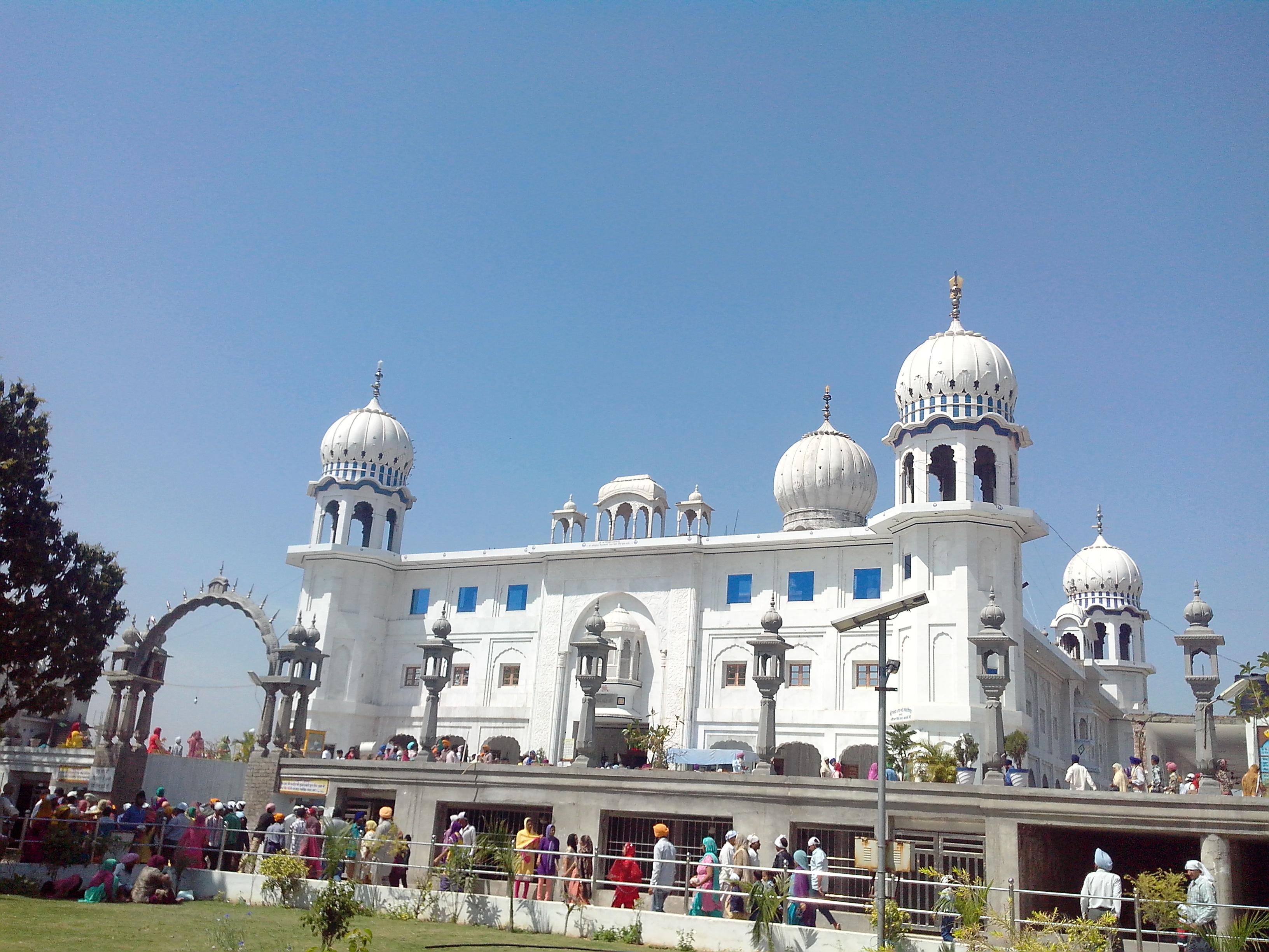 Gurudwara Panjokhra Sahib, Haryana. Pertaining to 8th Sikh Guru Shri Har Krishan Ji